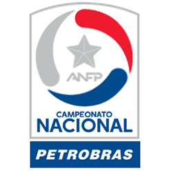 Logo Chilean Primera División